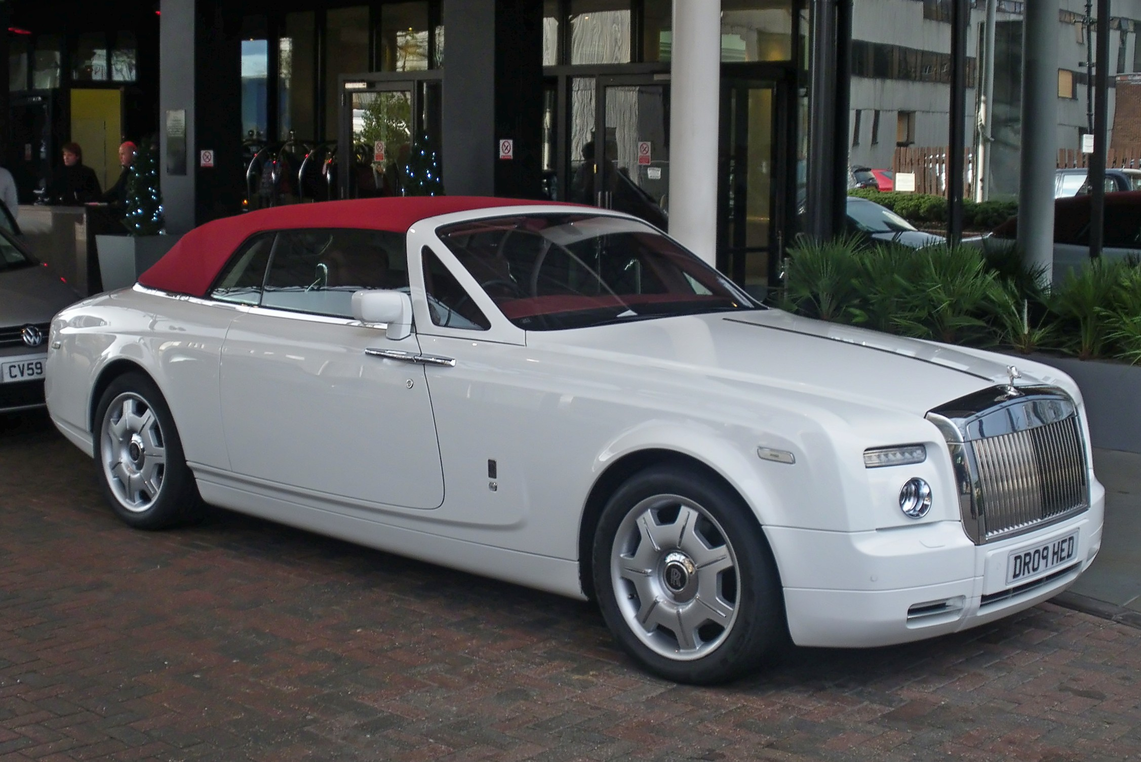 Rolls Royce Phantom Drophead Coupe